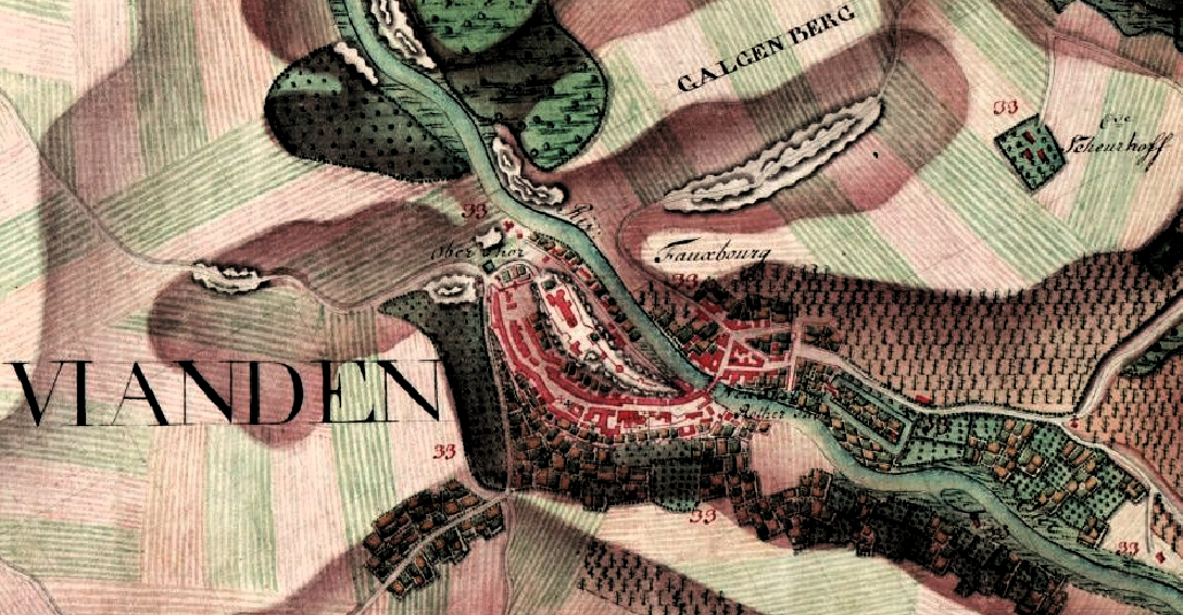 Vianden, Luxembourg, on the map of Ferraris.